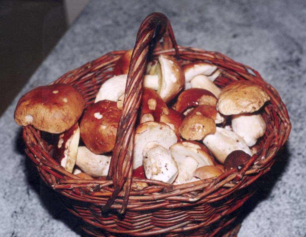 Mushrooms in handbasket